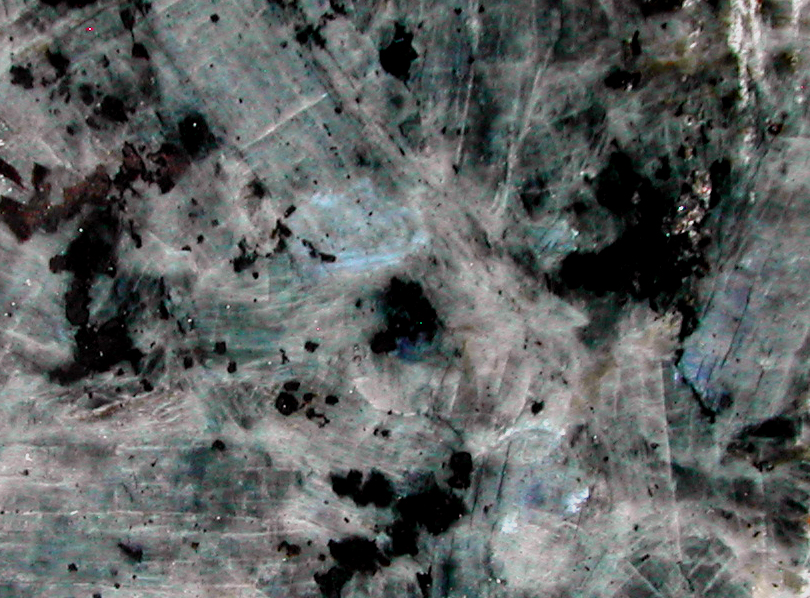 A polished slab of a rock containing labradorite